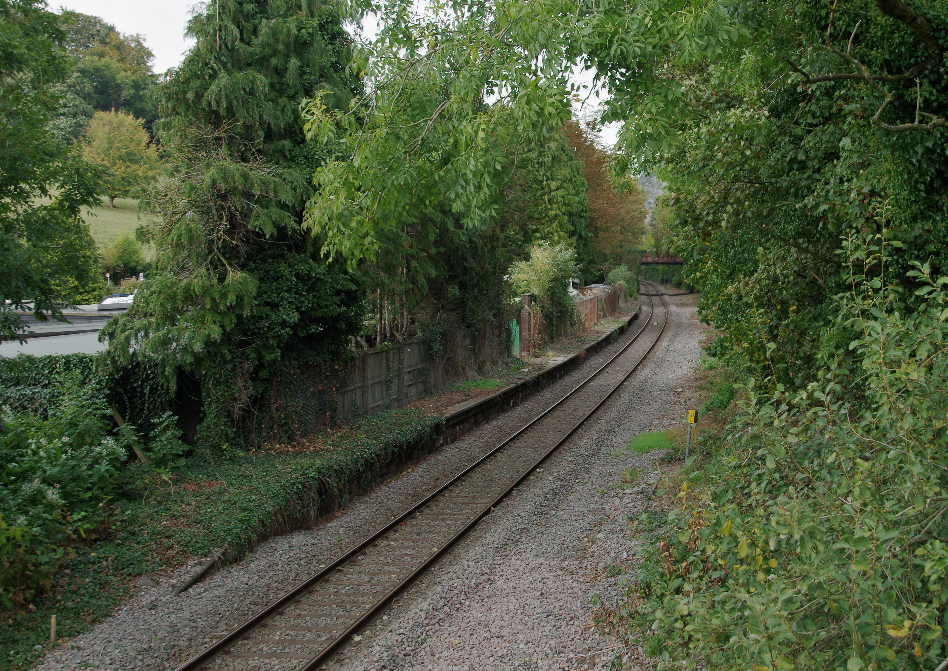 The site of Clifton Bridge railway station on the Portishead Branch Line.